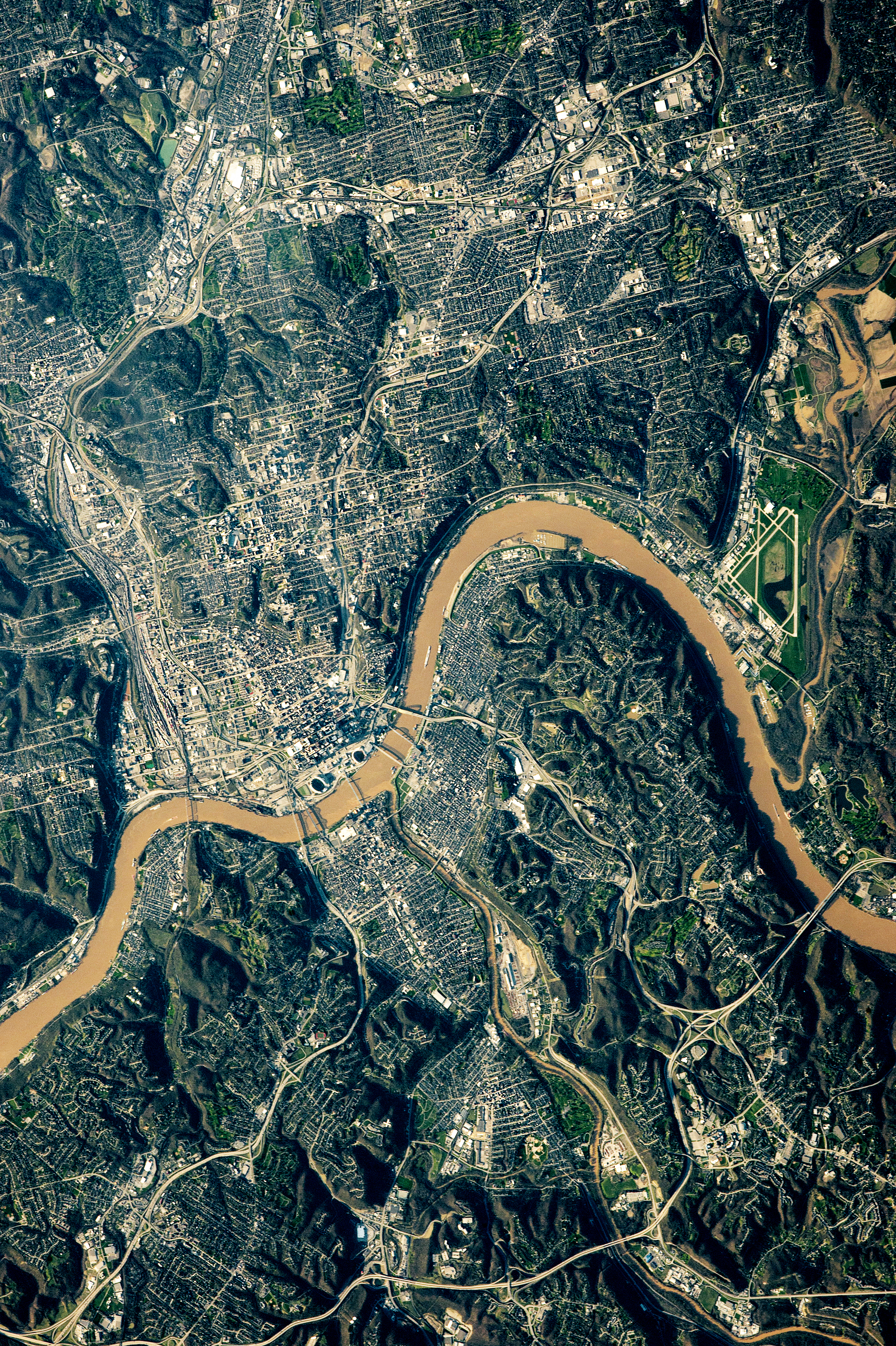 Cincinnati metropolitan area, 10 April 2015